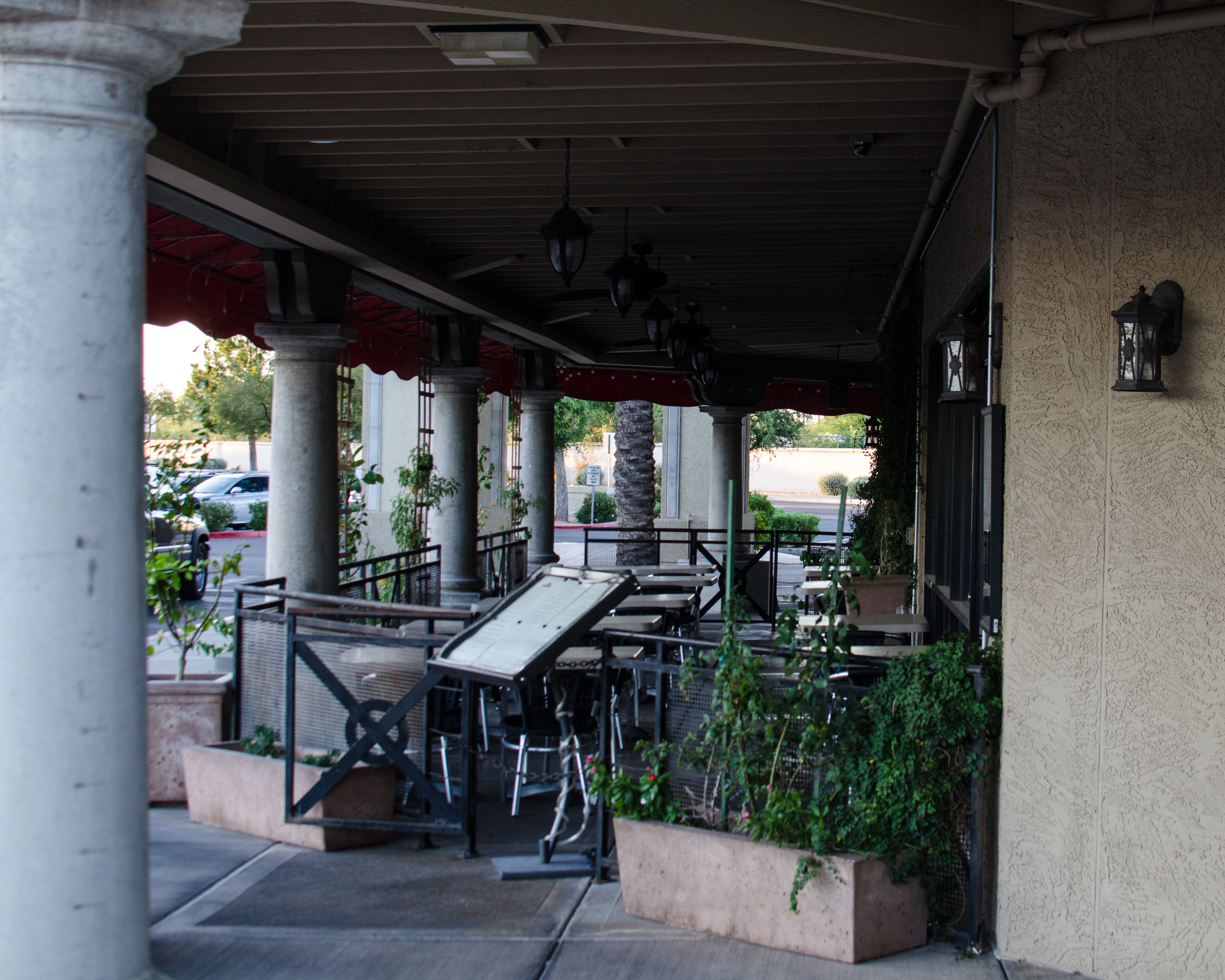 one of the verandas of Amy's Baking Company where customers could dine